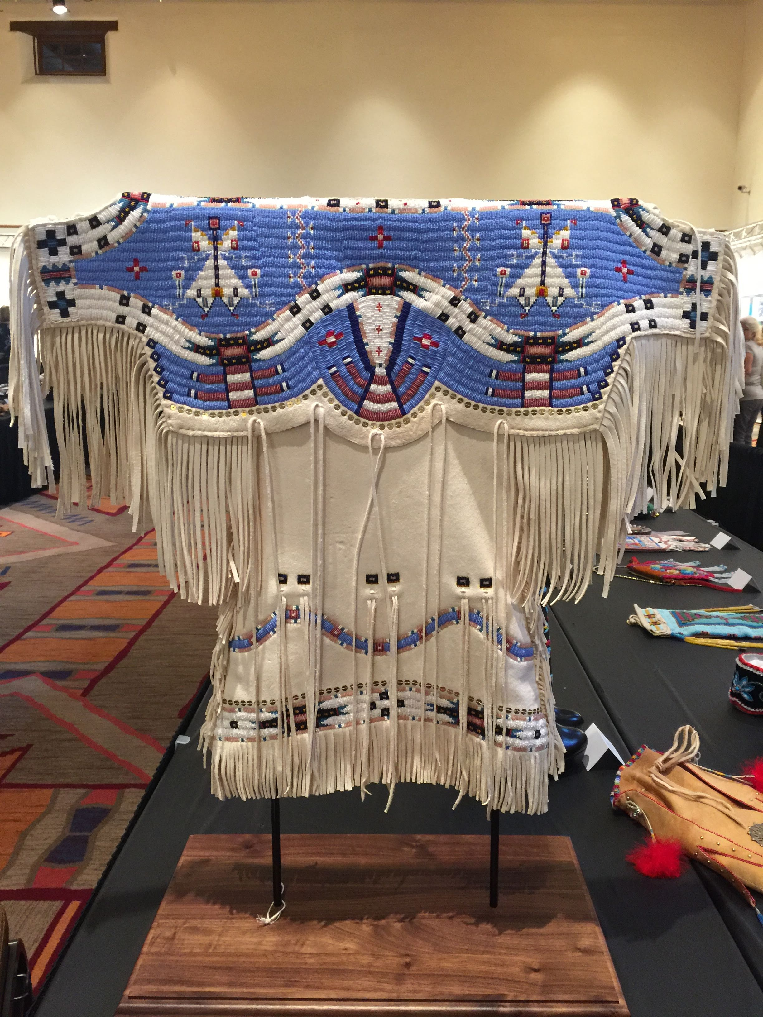 Girls Dress by Joyce Growing Thunder 2017